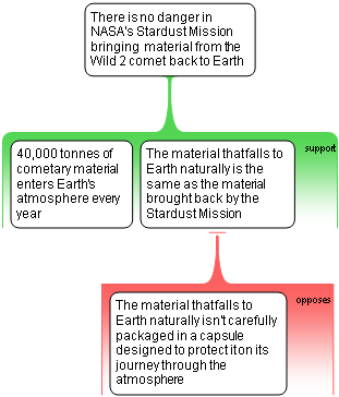 Stardust Mission Inference objection with co-premise included